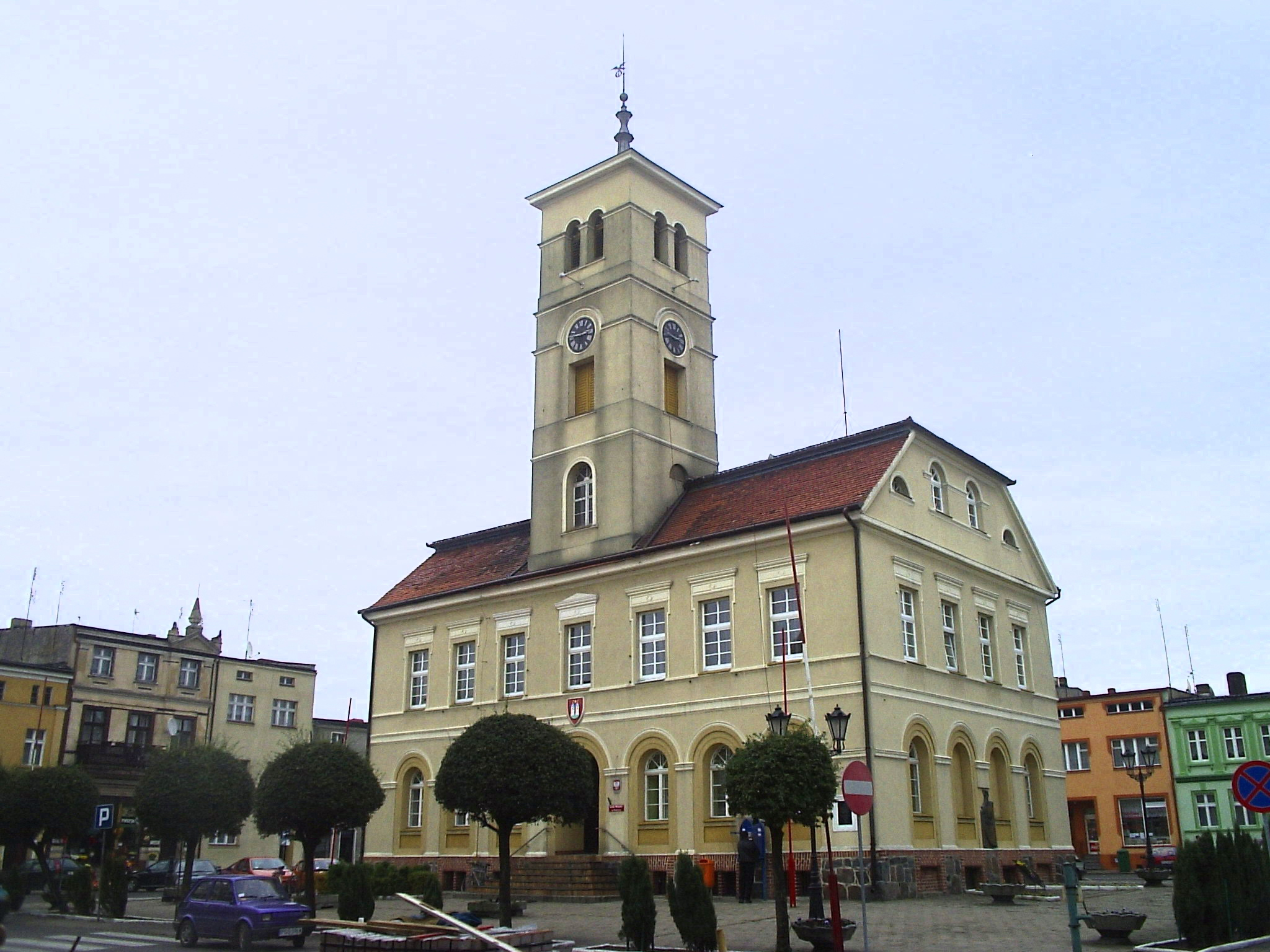 Town Hall in Poniec, Poland